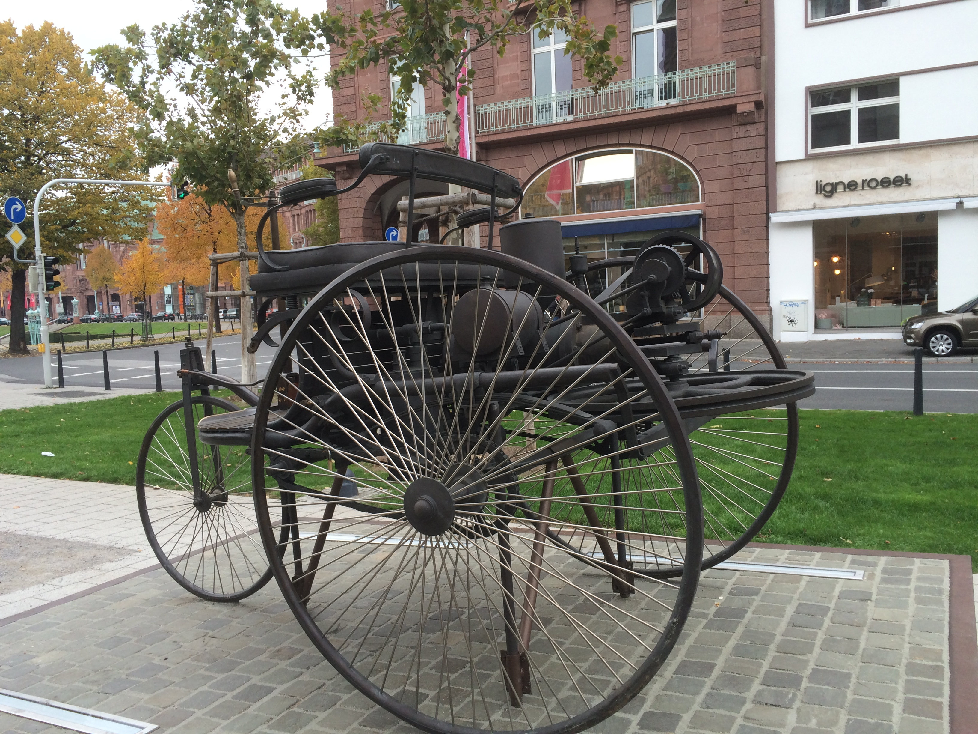 Monument of first motorcar